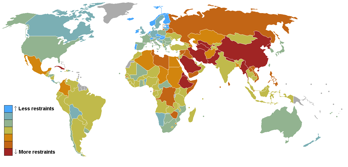 Reporters Without Borders 2006 press freedom ranking map